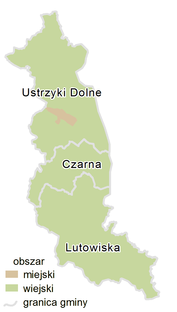 Subcarpathian Voivodeship - bieszczadzki county gminas